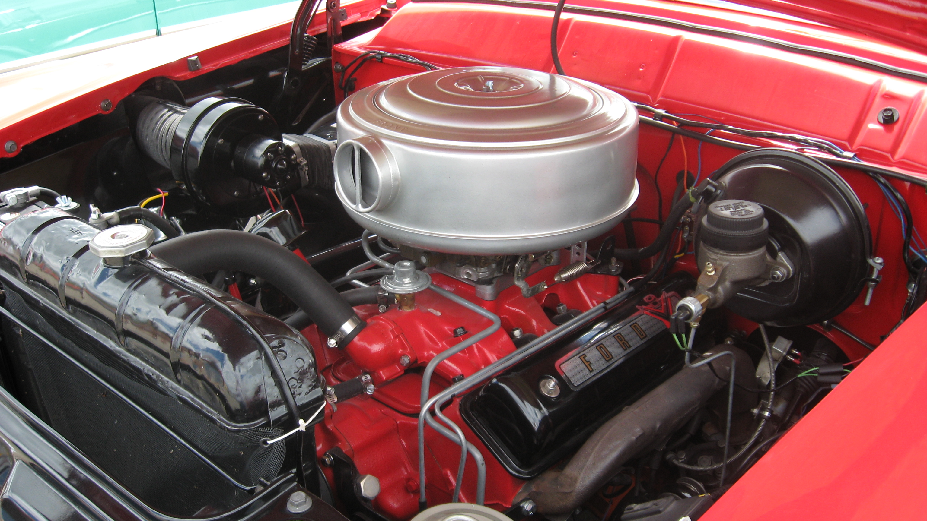 Engine bay of a '56-7 Ford Sunliner 'vert, shot at local car show/swap meet